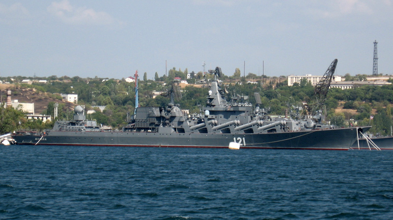 Guided missile cruiser project 1164 Moskva in Sevastopol.